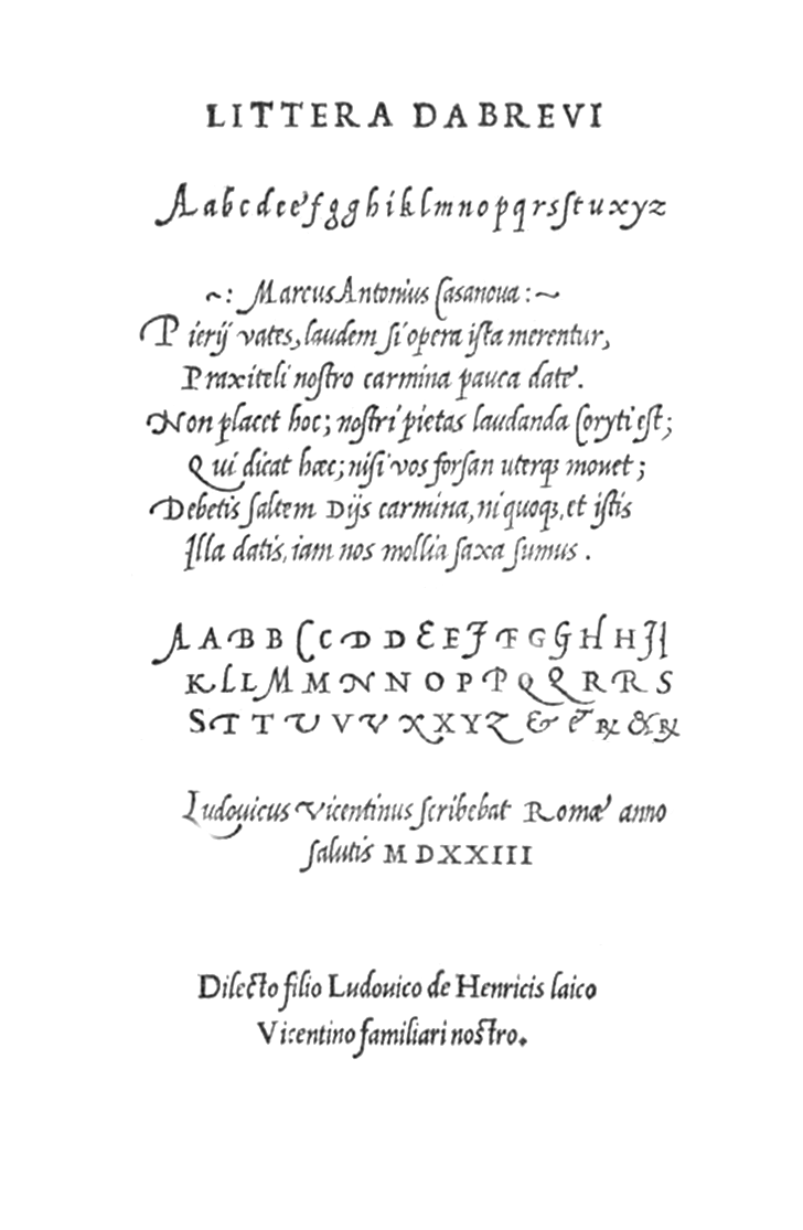 Italic